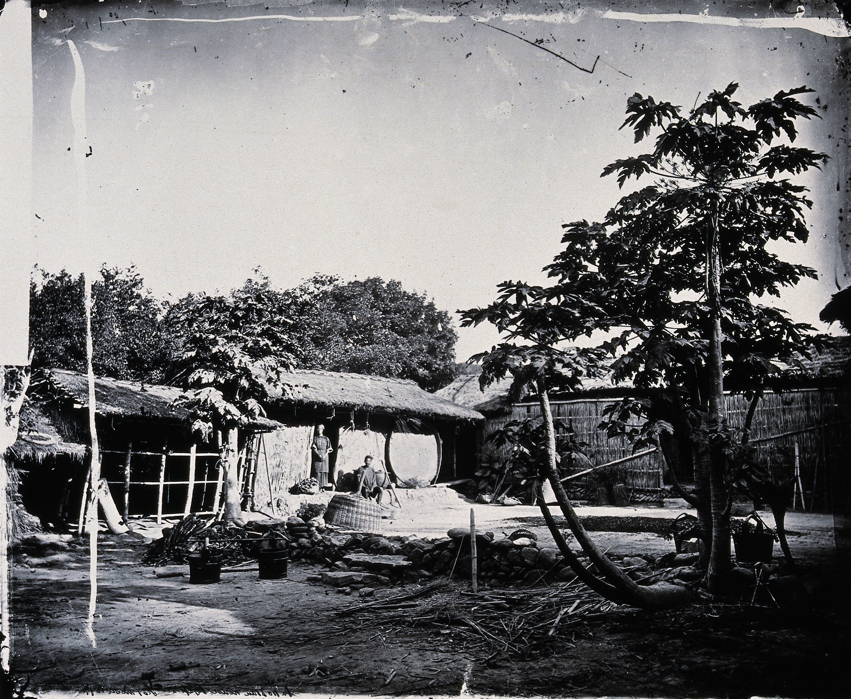 Pepohoan dwellings; Pepohoan house Bak-su, Formosa Iconographic Collections Keywords: john thompson; Taiwan; J. Thomson; Formosa (Taiwan); John Thomson